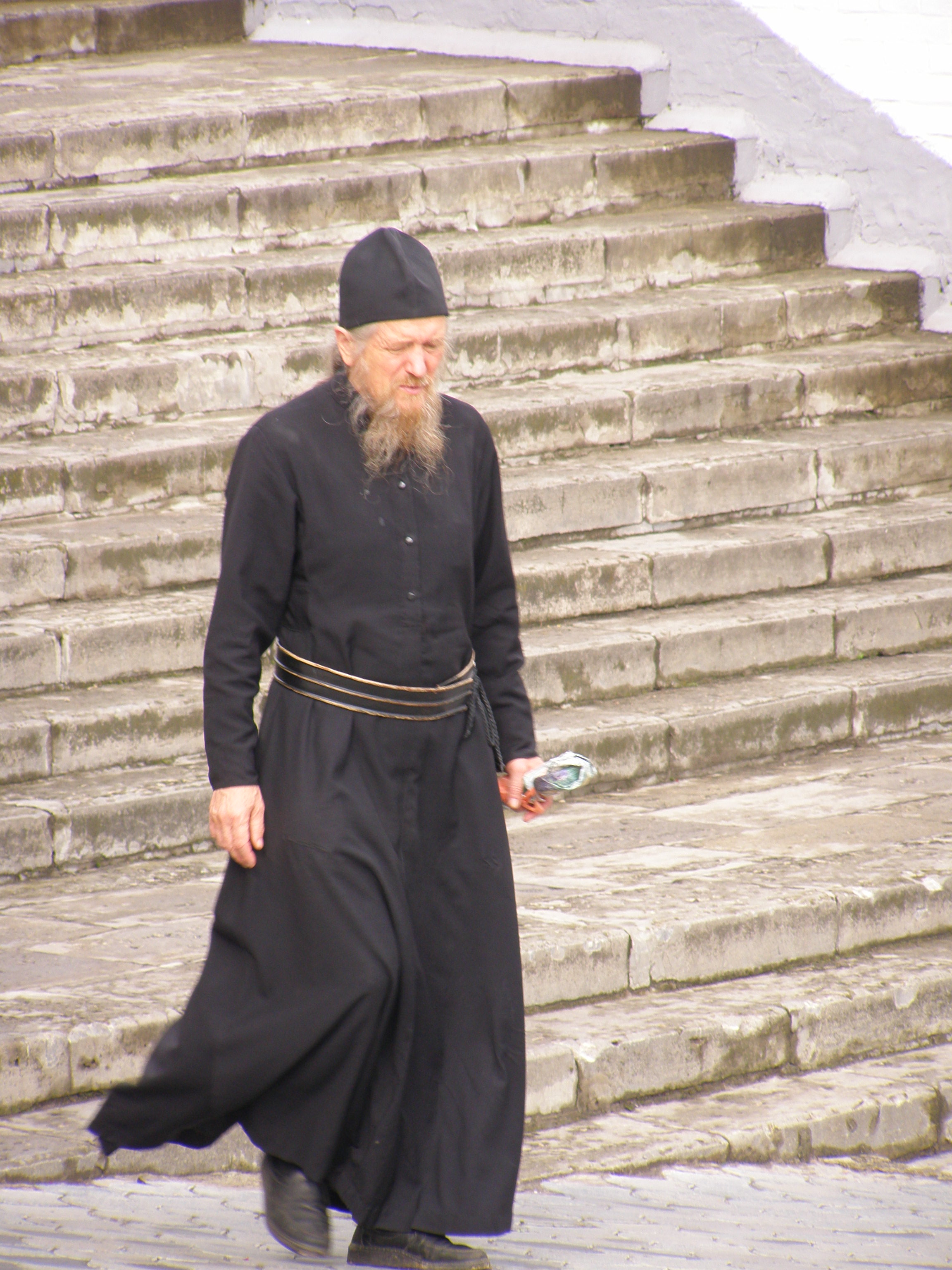 Pochayiv Lavra